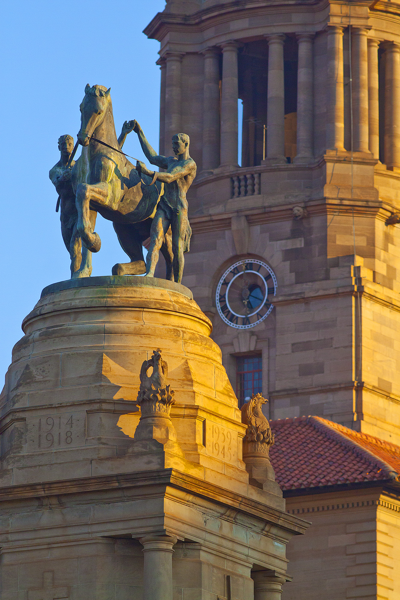 Images taken from the Union Buildings in Pretoria of aspects of the union buildings and its surrounding Pretoria city scape This media shows a South African Protected Site with SAHRA file reference 9/2/258/0067.